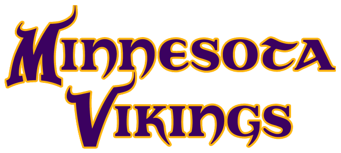 Minnesota Vikings first wordmark since 2004.